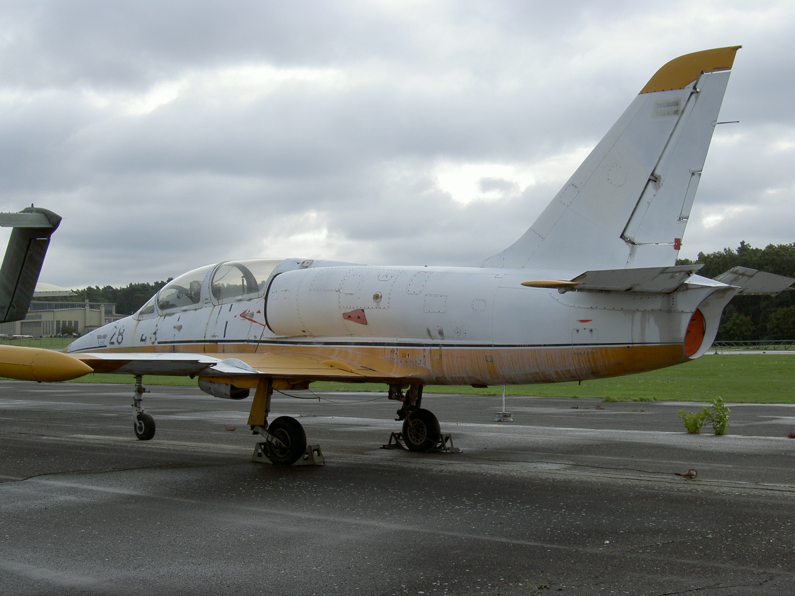 Aero L-39V, ex. 170 NVA at the Luftwaffenmuseum Berlin-Gatow